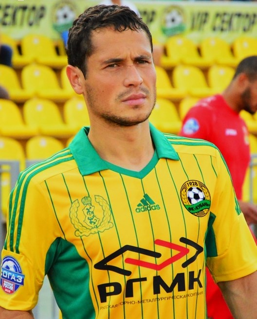 Maksim Zhavnerchik 2014